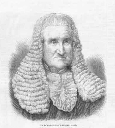 Portrait of Charles Hall (1814–1883), English judge, published in the Illustrated London News.